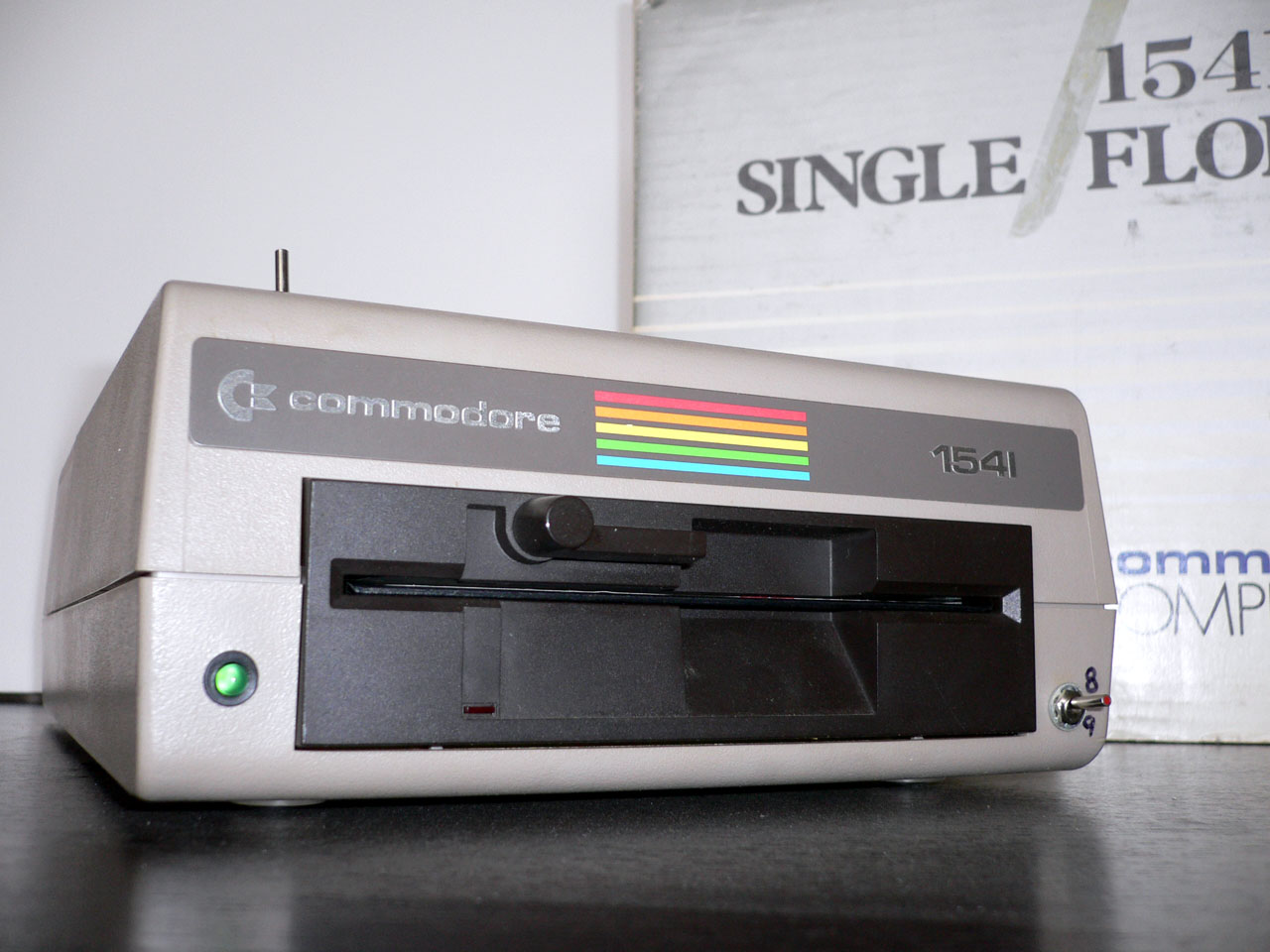 A Commodore 1541 5.25" floppy disk drive, compatible with the Commodore 64. Front panel (with user-added switch).